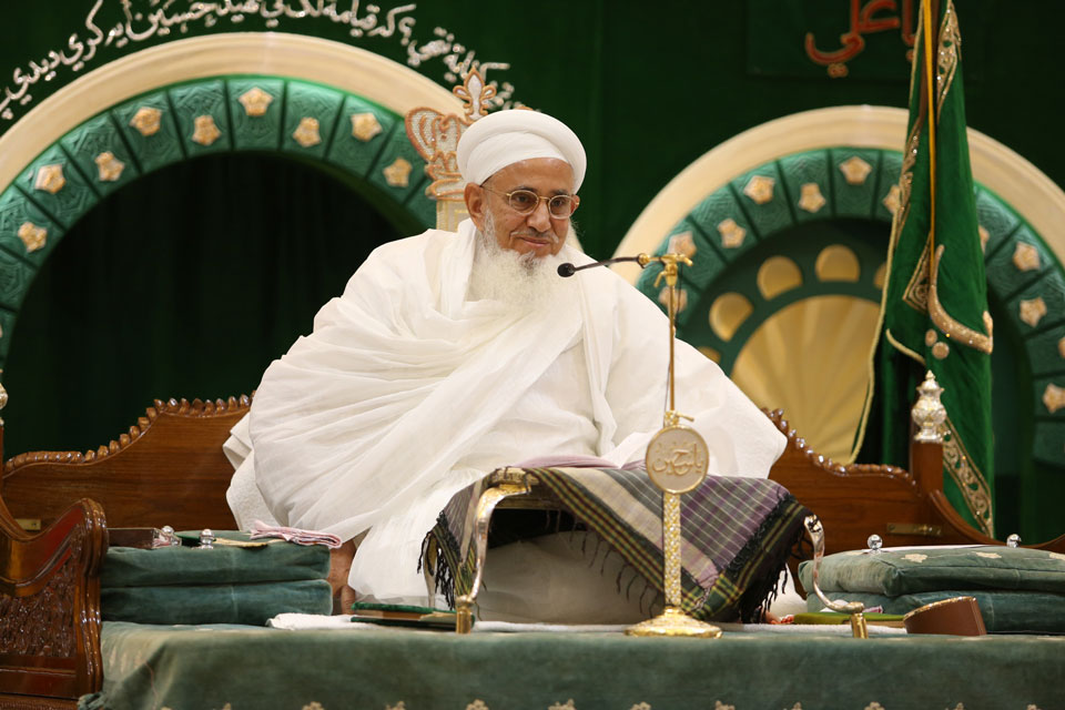 Mufaddal Saifuddin during Moharram 1437 Waaz in Houston.